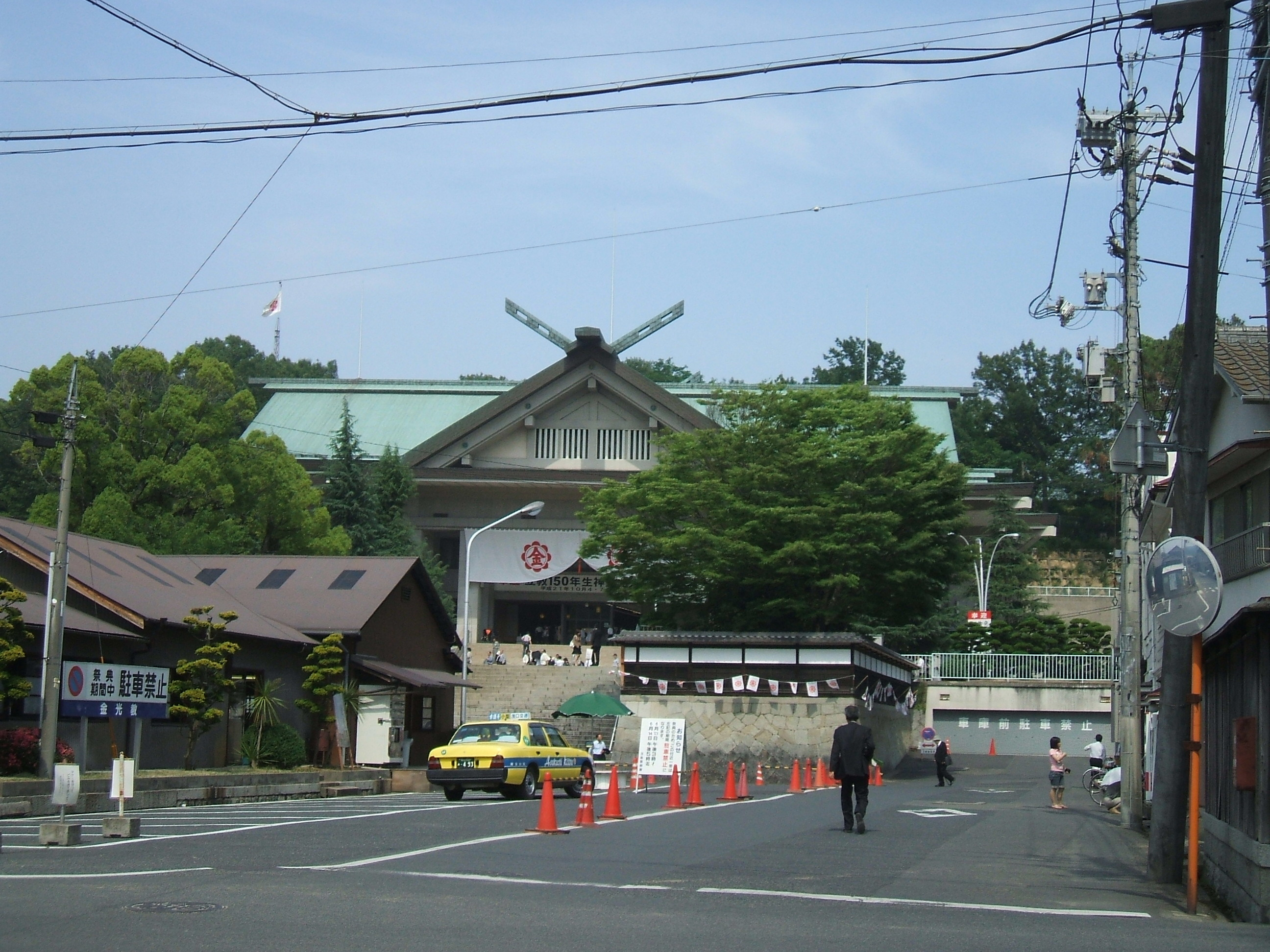 Konkokyo